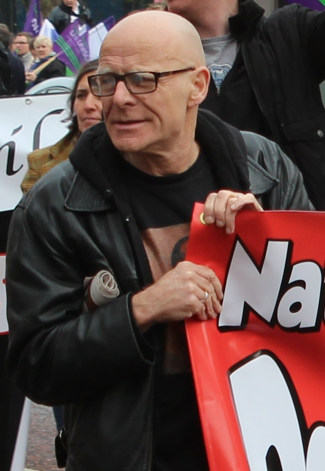 Cropped version of File:Anti-Austerity March, Belfast, October 2012 (024).JPG showing Eamonn McCann